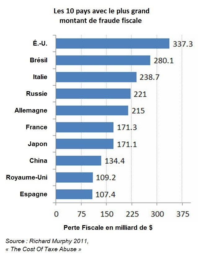 Ten countries that have the largest absolute amount of tax evasion bar graph.